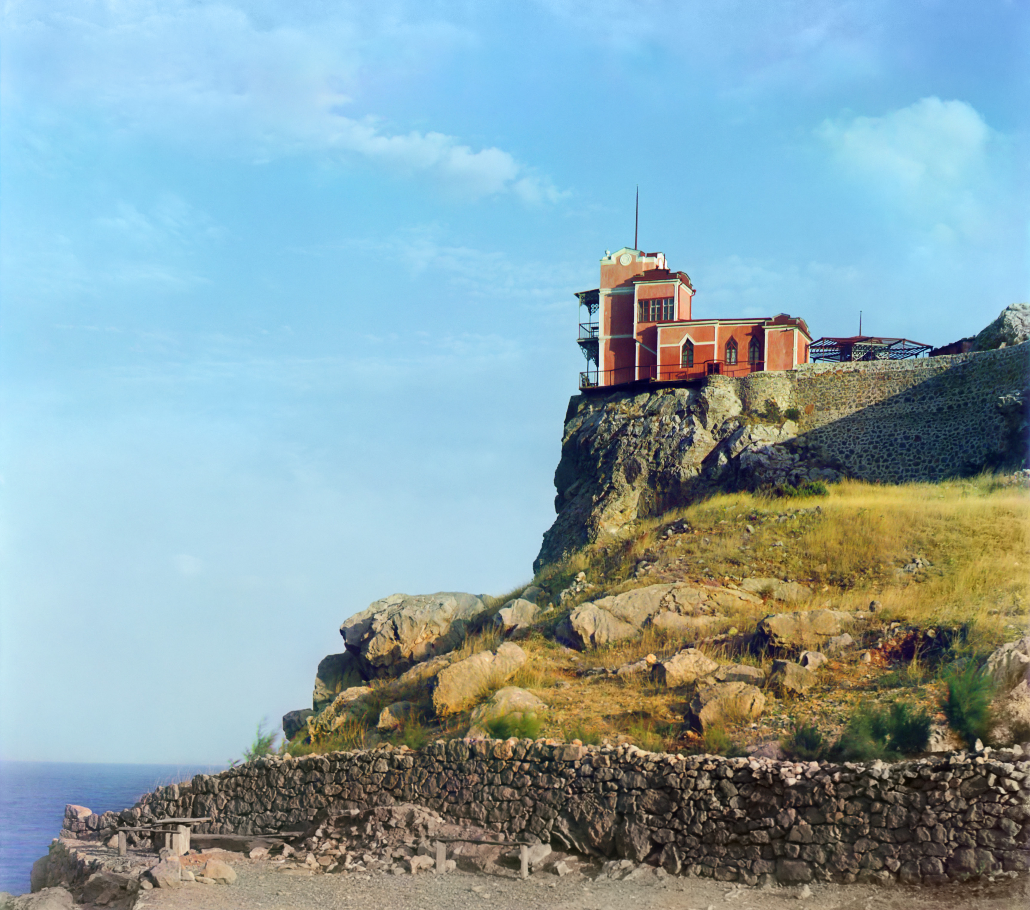 S. M. Prokudin-Gorsky's photo of "Swallow's nest" (Crimea) original wooden building.